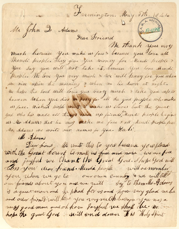 A letter from the Amistad Africans to John Quincy Adams thanking him for working on their case.